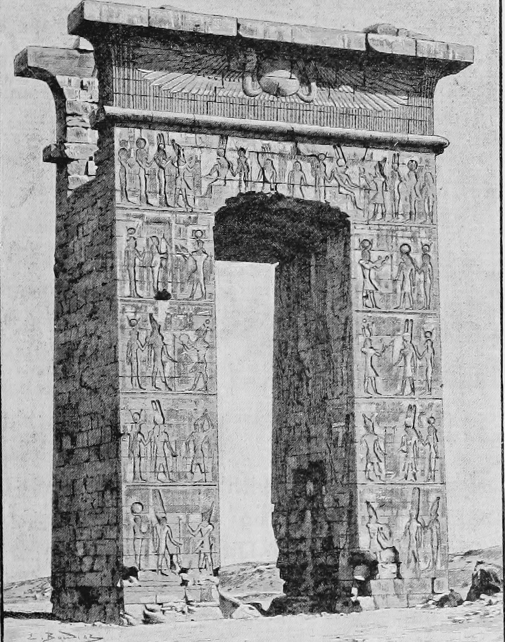 Title: History of Egypt, Chaldea, Syria, Babylonia and Assyria Year: 1903 (1900s) Authors: Maspero, G. (Gaston), 1846-1916 Sayce, A. H. (Archibald Henry), 1845-1933 Subjects: Civilization, Ancient History, Ancient Publisher: London : Grolier Society Text Appearing Before Image: BUILDINGS OF THE TWO NECTANEBOS 315 himself, escape their zeal, for the few Europeans who havevisited them in modern times have observed theircartouches there. Moreover, in spite of the brief space of Text Appearing After Image: GREAT GATE OF NECTAJIEBO AT KAENAK. time within which they were carried out, the majority ofthese works betray no signs of haste or slipshod execution ; 1 Drawn by Boudier, from a photograph by Beato. 31fi THE LAST DAYS OF THE OLD EASTERN WORLD the craftsmen employed on them seem to have preservedin their full integrity all the artistic traditions of earliertimes, and were capable of producing masterpieces whichwill bear comparison with those of the golden age. TheEastern gate, erected at Karnak in the time of NectaneboII., is in no way inferior either in purity of proportion or in the beauty of its carv-ings to what remains ofthe gates of AmenothesIII. The sarcophagus ofNectanebo I. is carvedand decorated with aperfection of skill whichbad never been surpassedin any age, and else-where, on all the monu-ments which bear the FRAGMENT OF A NAOS OF THE TIME OF NECTANEBO HSiTHQ Of thlS mOUarChII. IN THE BOLOGNA MUSEUM. i i • the hieroglyphics havebeen designed and carved with as much ca